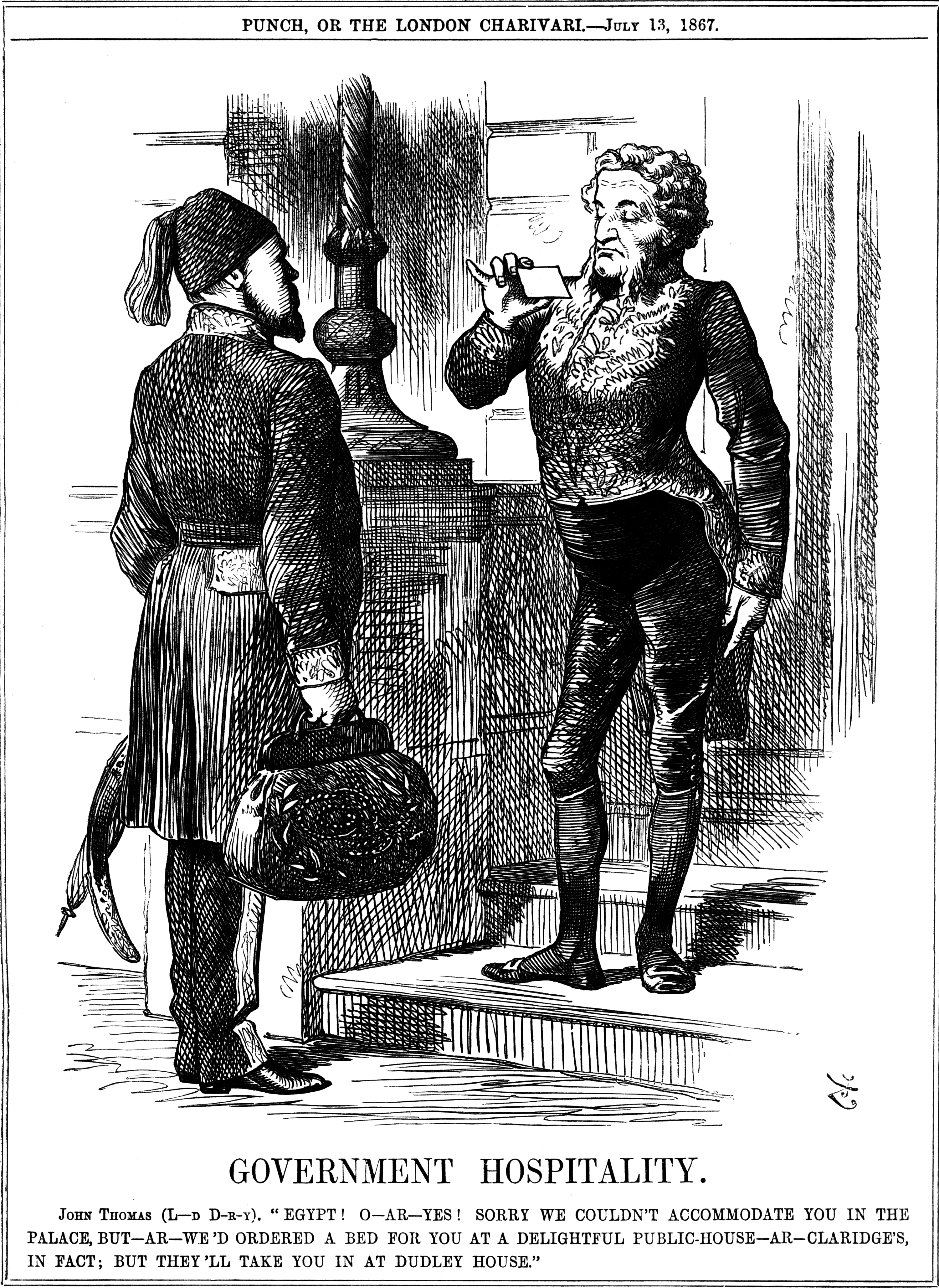 "Government Hospitality" : Punch magazine cartoon about the visit of Isma'il Pasha to the United Kingdom.